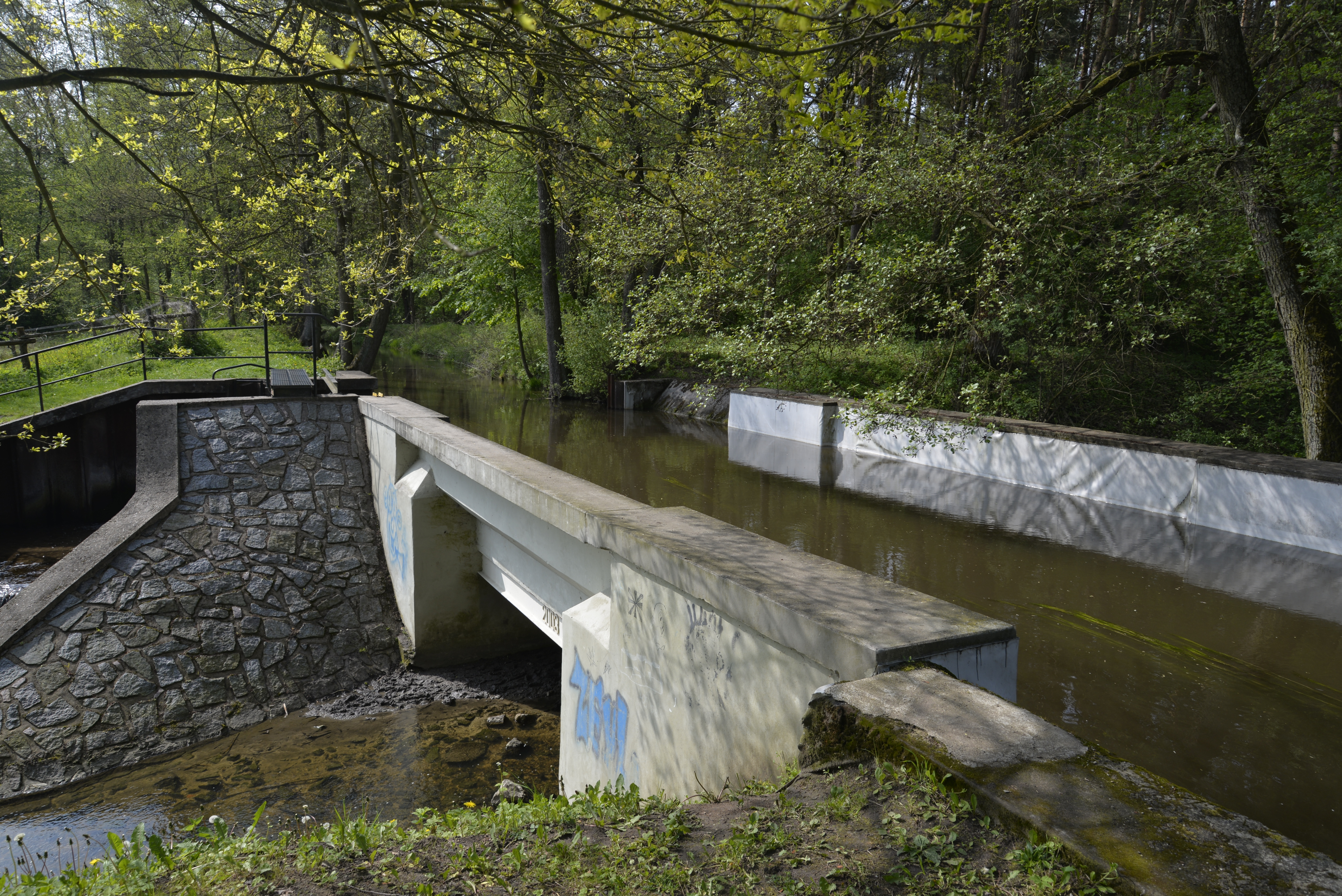 Semín aqueduct